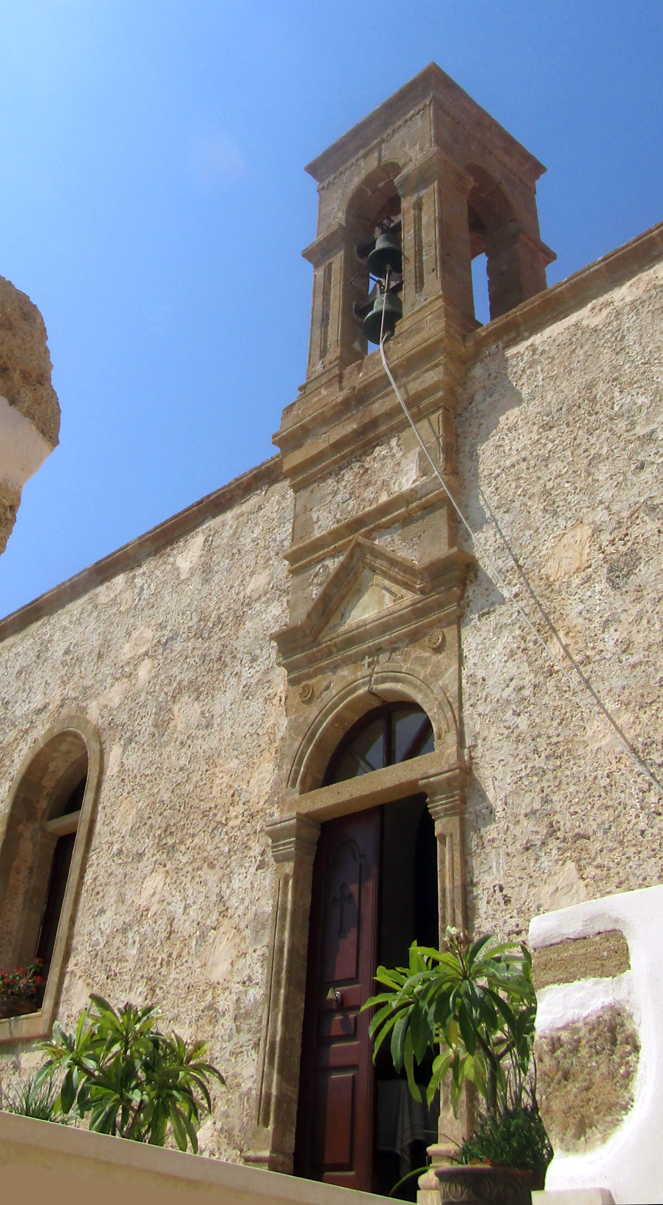 Chrysoskalitissa Monastery (Crete): church tower